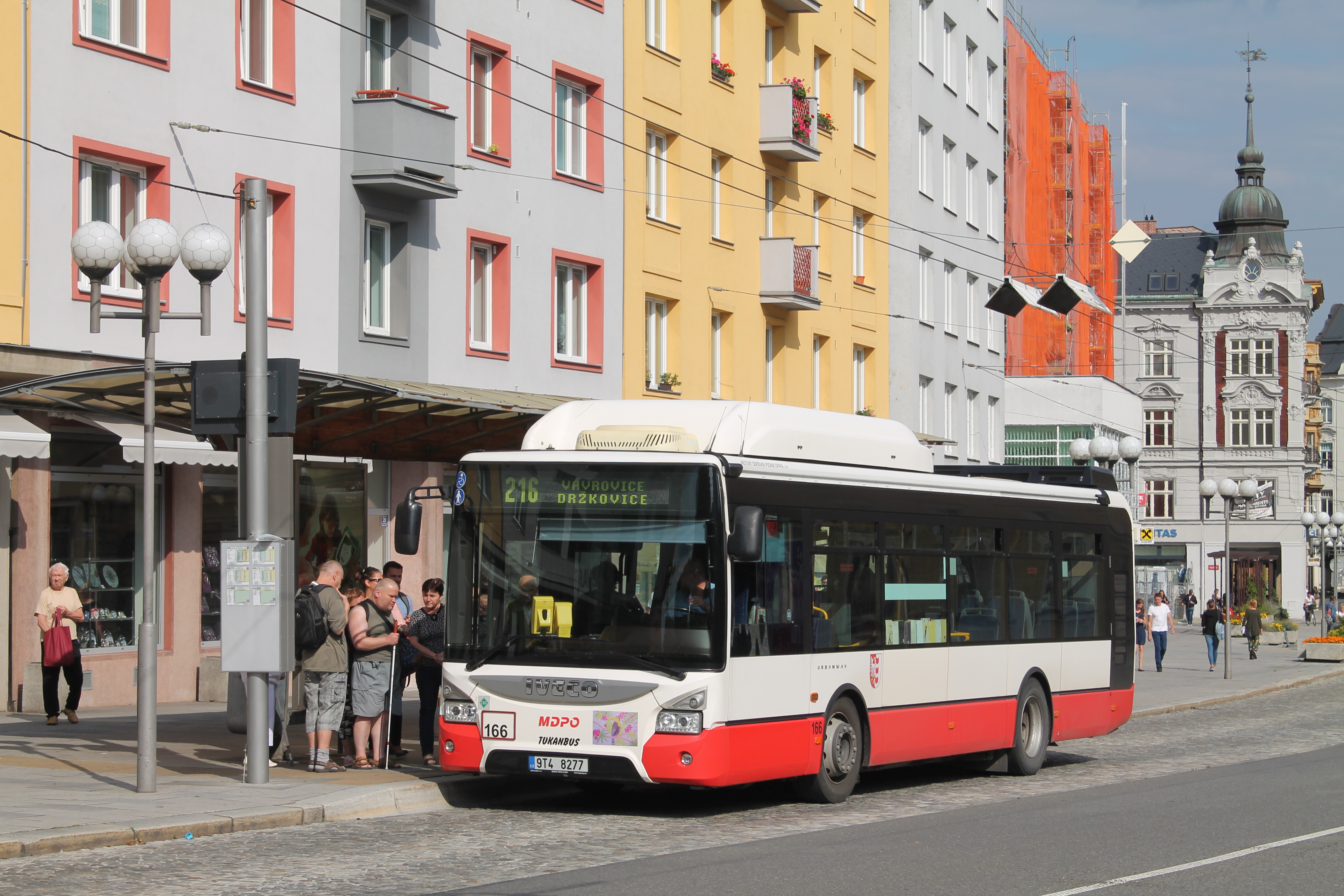 Iveco Urbanway 10,5M CNG bus No. 166 of Městský dopravní podnik Opava, Opava, Opava District, Czech Republic